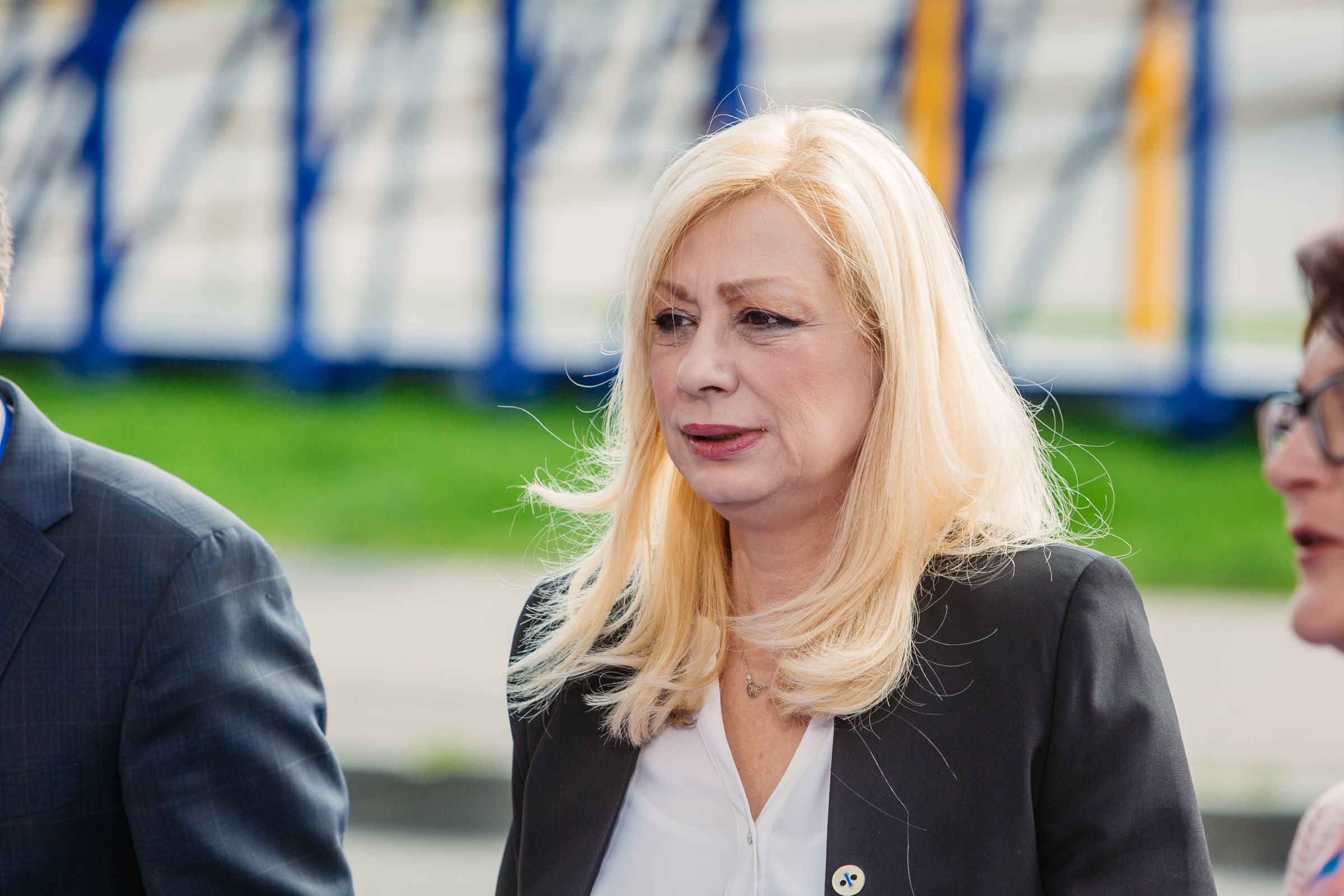 Georgia Emilianidou, Minister, Ministry of Labour, Welfare and Social Insurance, Cyprus Photo: Arno Mikkor (EU2017EE)